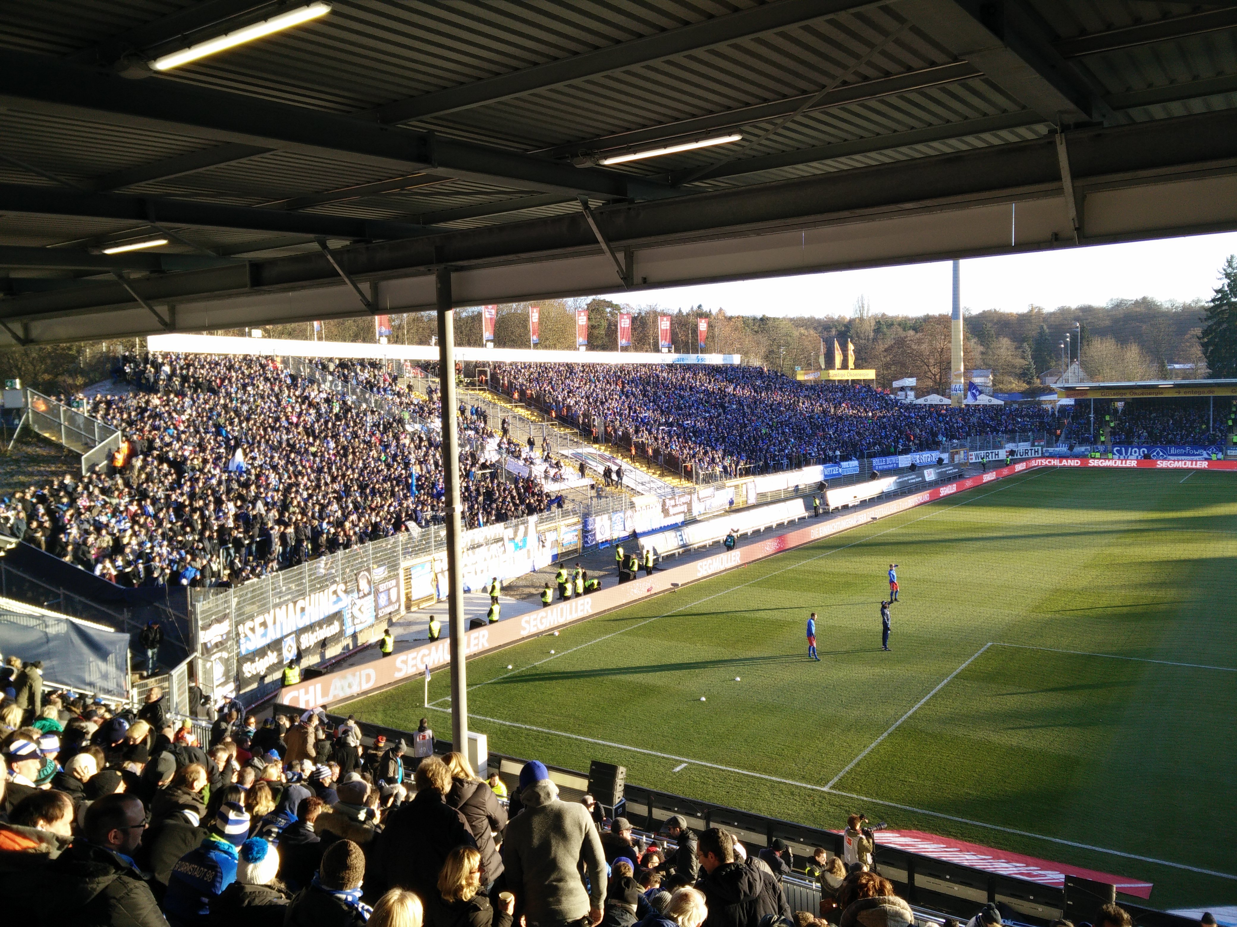 View from the North Stand in Darmstadt stadium Böllenfalltor. 4 Dec. 2016? HSV?